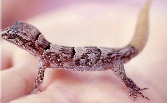 Endemic gekko (Nactus serpensinsula) from Round Island, north of Mauritius